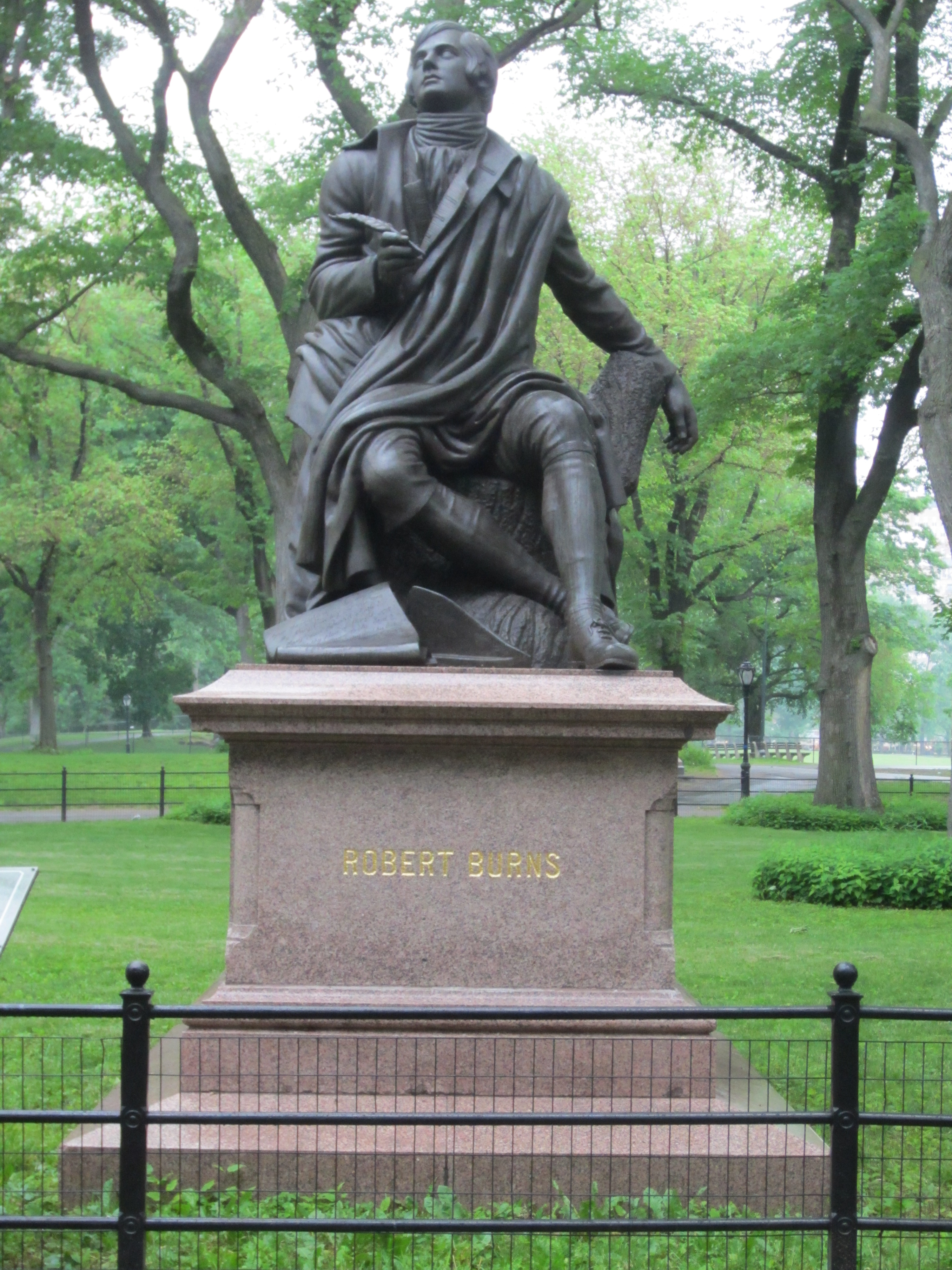 Central Park, New York City (June 2014)